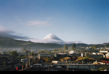 Picture of the volcano Santa Maria, taken from a rooftop in Quetzaltenango. Photo is a personal photo taken while visiting Xela